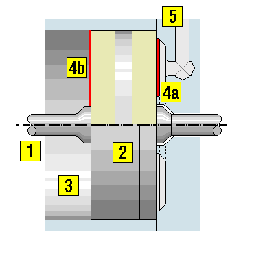 Cylinder